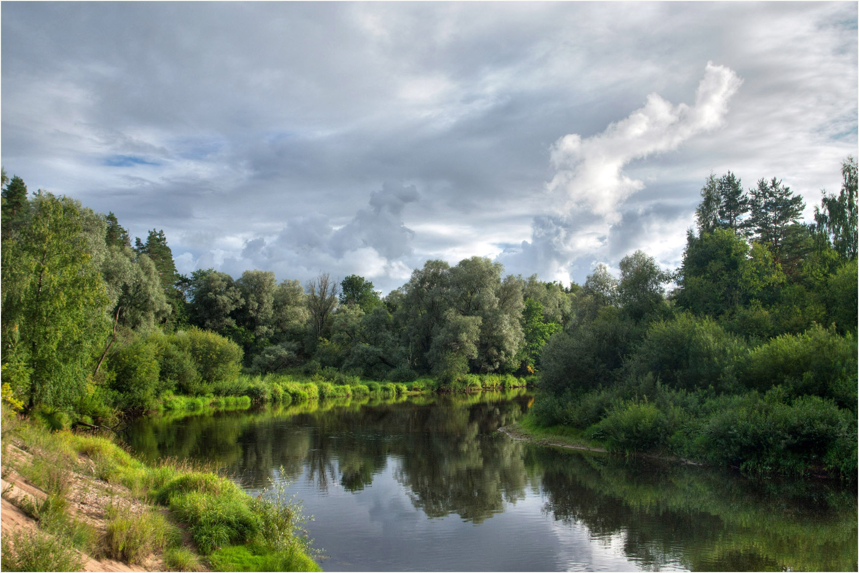 The border river